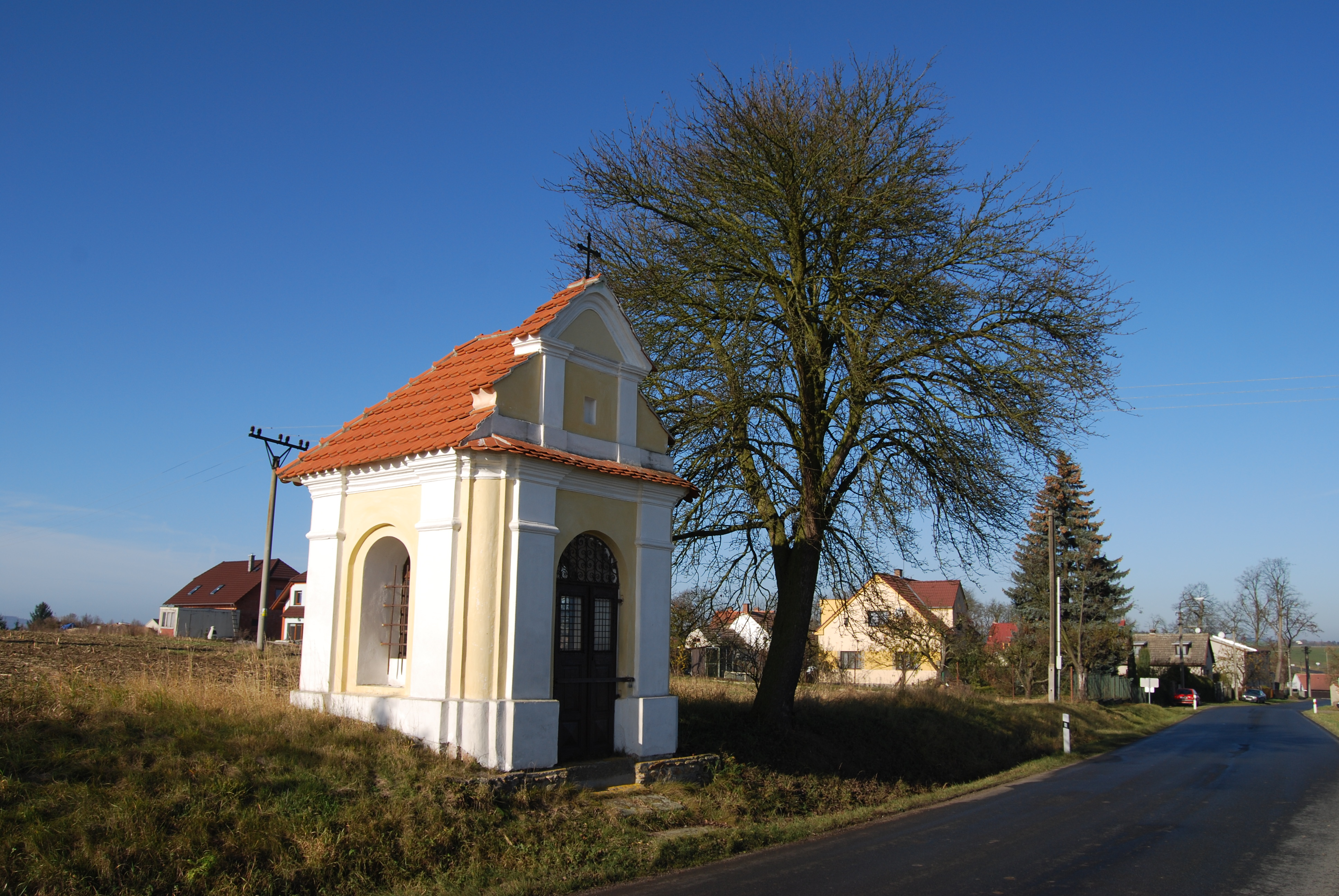 Dražíč village in České Budějovice District, Czech Republic. Chapel on the village border.